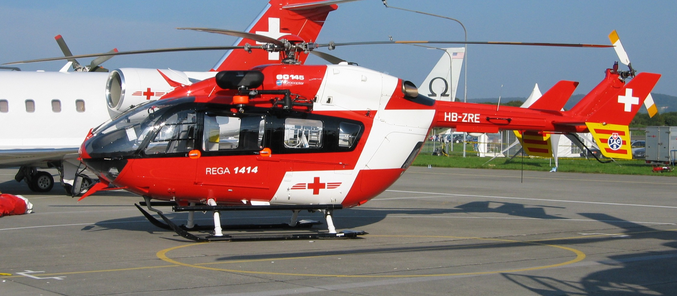 Rega's Eurocopter EC-145 with registration HB-ZRE at Payerne Airport, Switzerland.